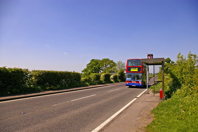 Bus stop, The Ridgeway, Enfield. Bus stop in The Ridgeway near St John's School, with a Metroline bus passing.